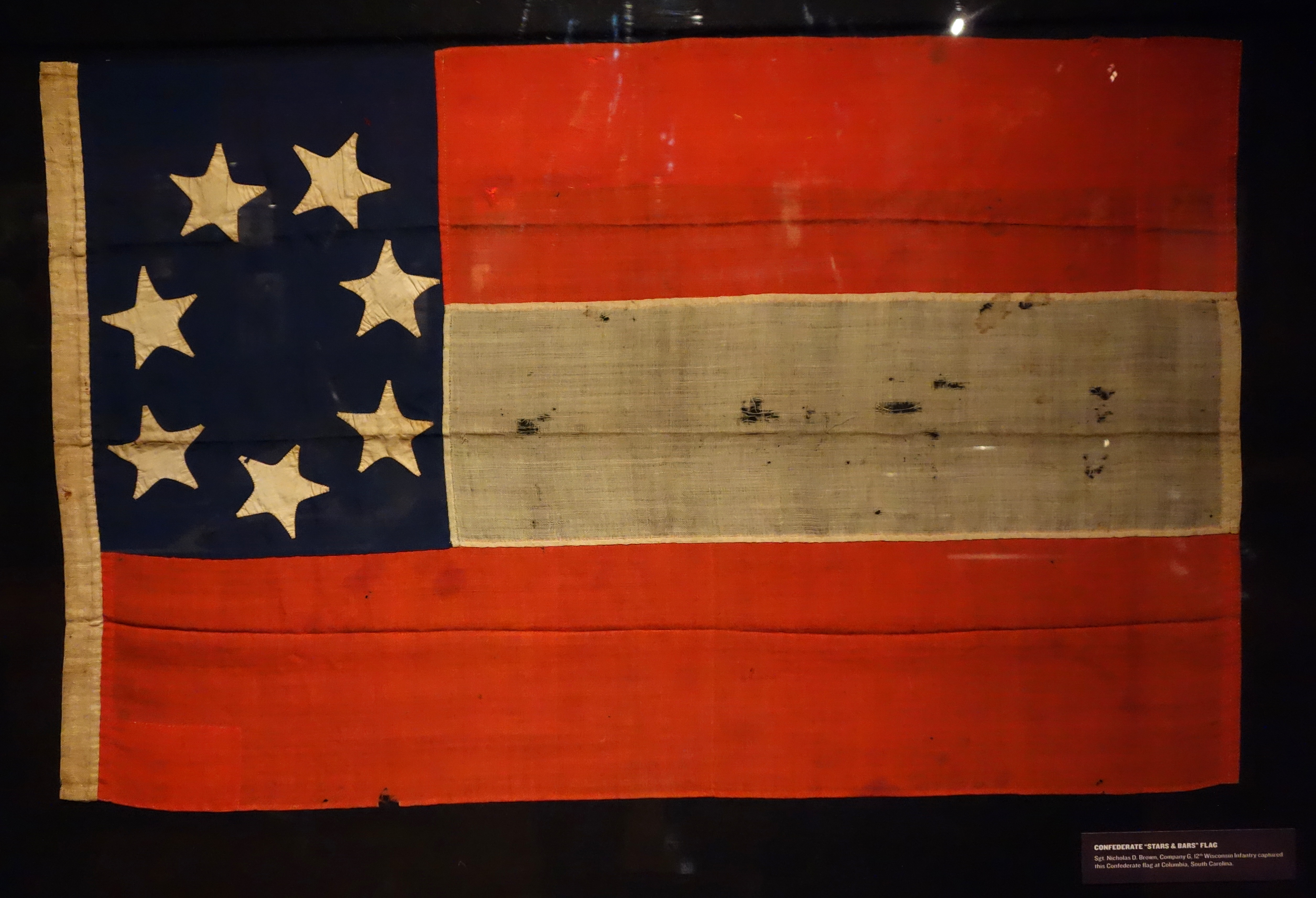 Exhibit in the Wisconsin Veterans Museum, Madison, Wisconsin, USA. This item is old enough so that it is in the public domain.